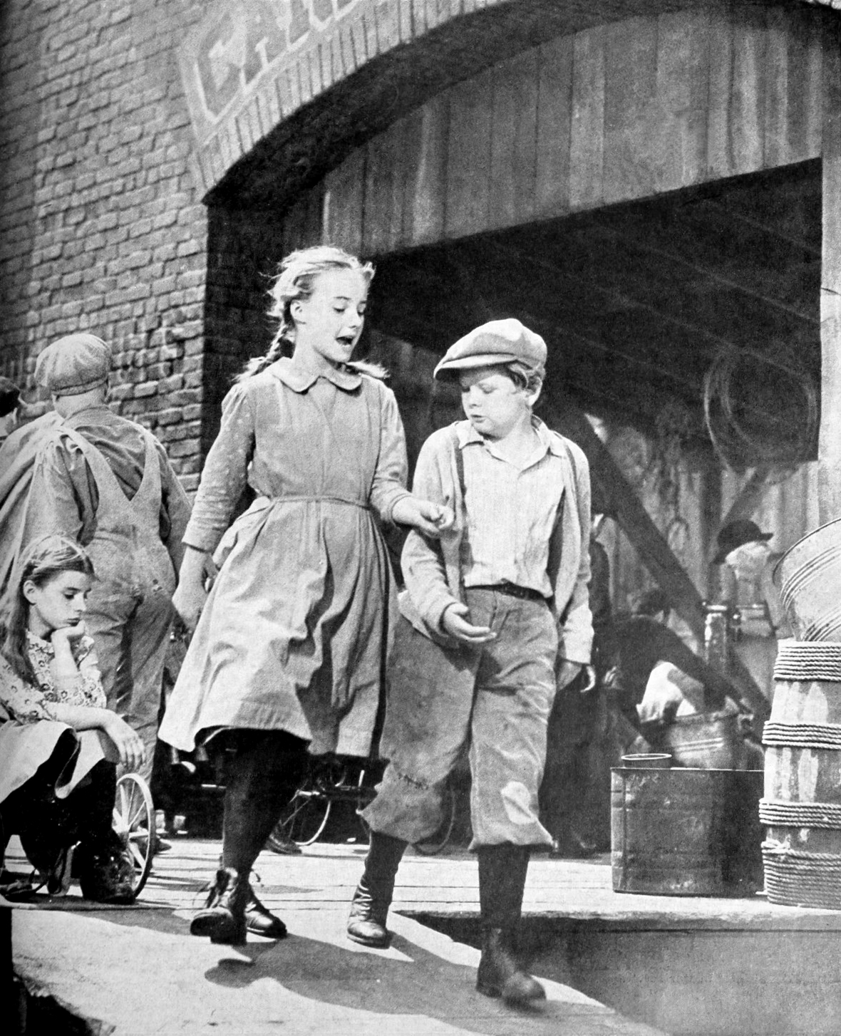 Promotional still from the 1945 film A Tree Grows in Brooklyn, published in New Movies, the National Board of Review Magazine. Subjects are Peggy Ann Garner and Ted Donaldson.